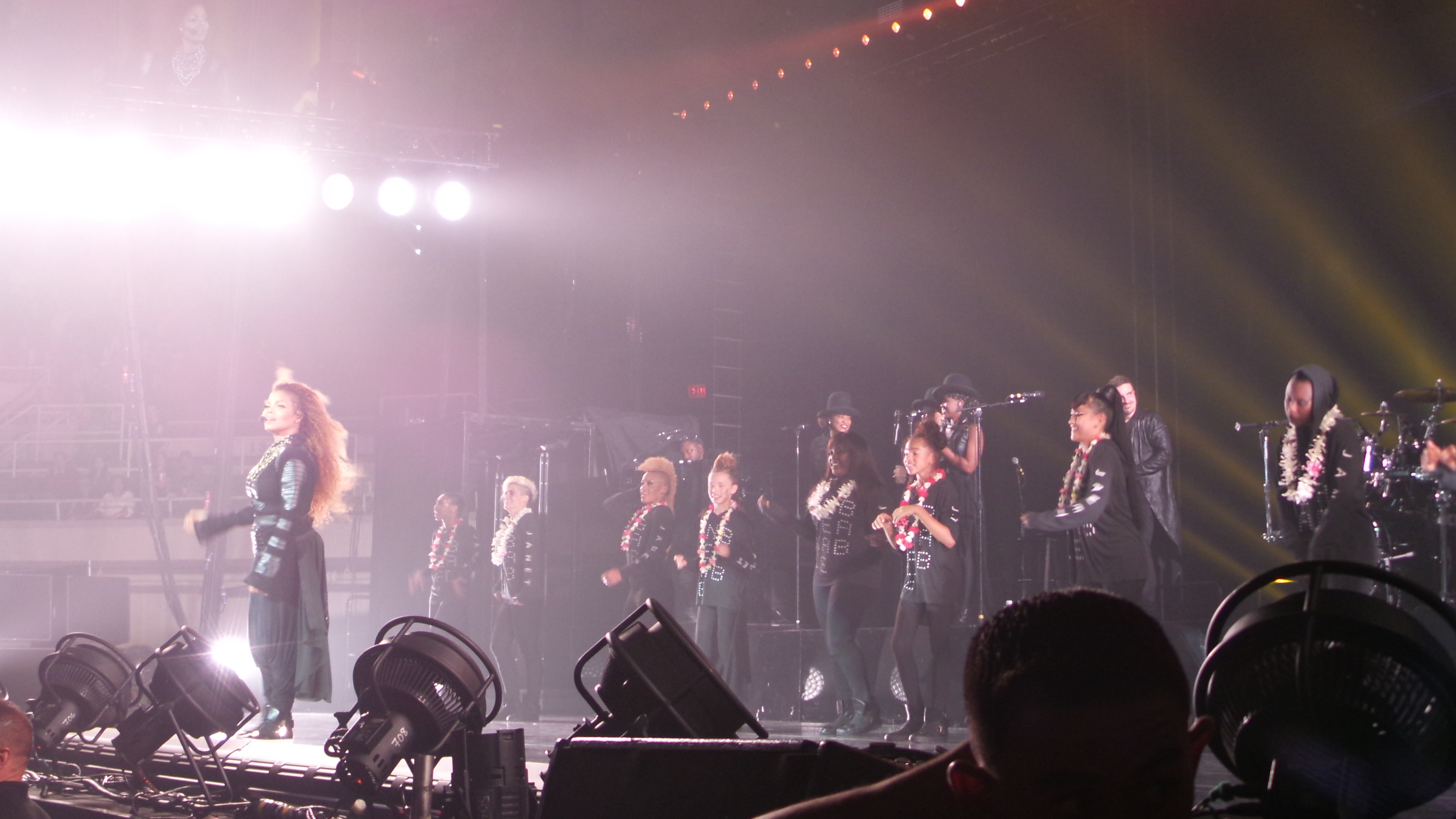 Janet Jackson Unbreakable Tour, Honolulu, Hawaii 2015